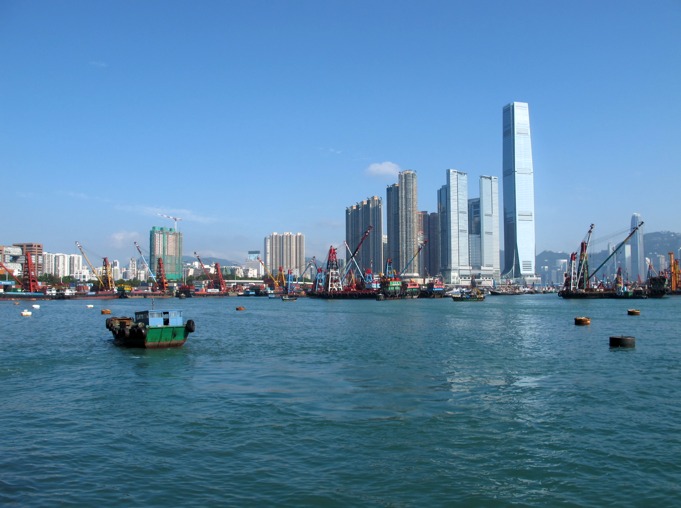 New Yau Ma Tei Typhoon Shelter